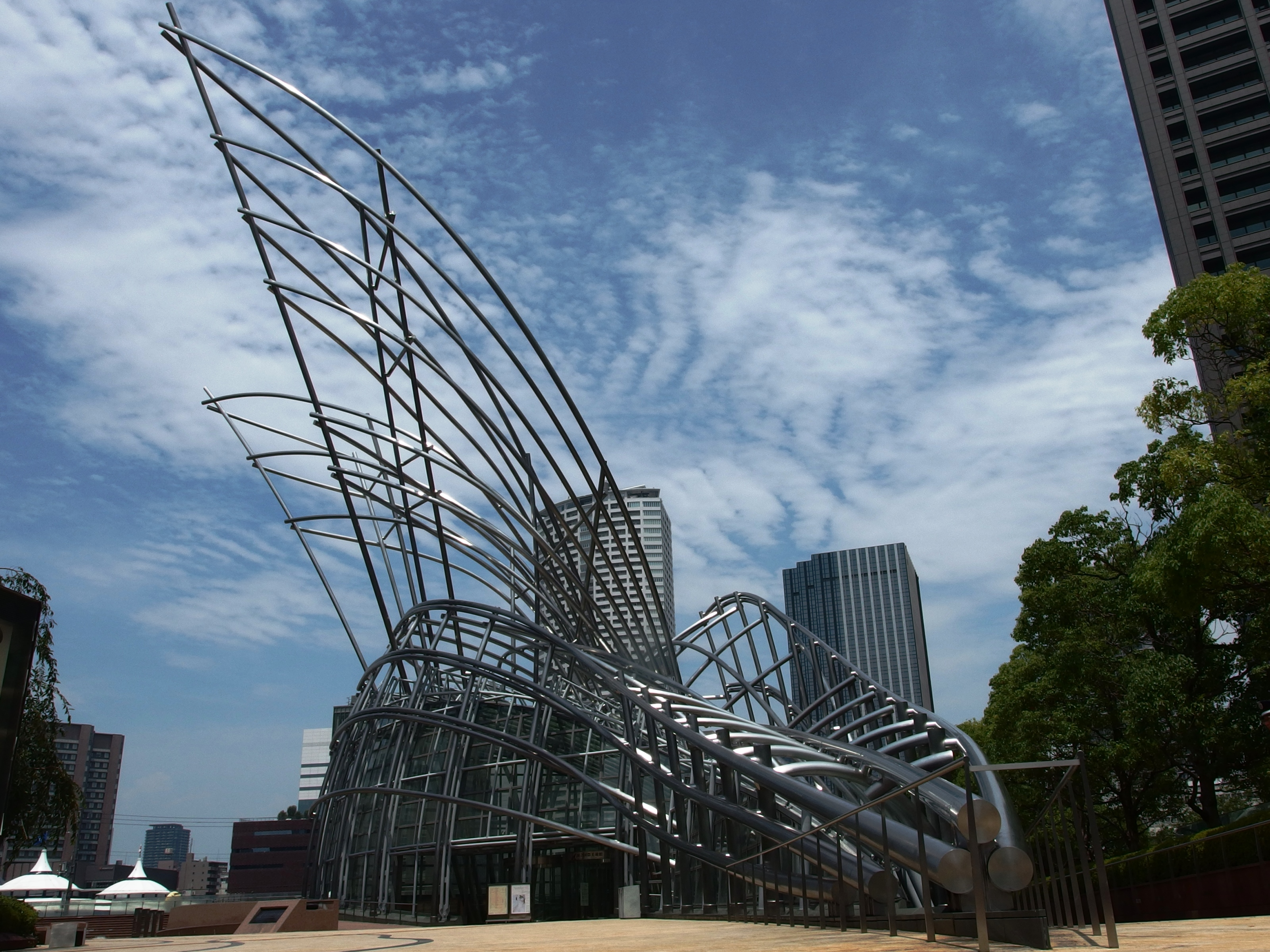 The National Museum of Art, Osaka, Osaka, Osaka prefecture, Japan